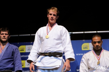 Berend Roorda, Dutch Judoka